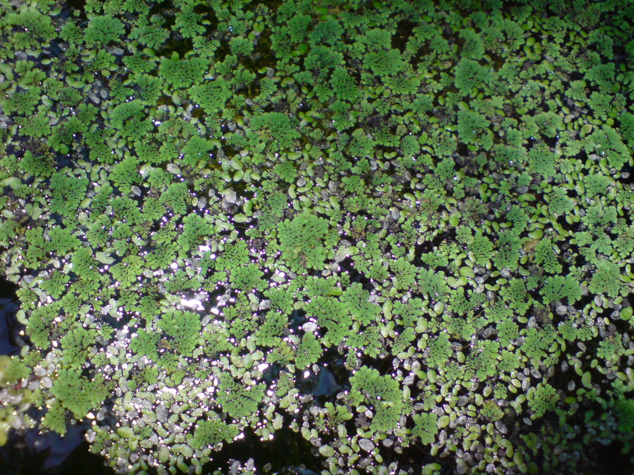 Azolla pinnata